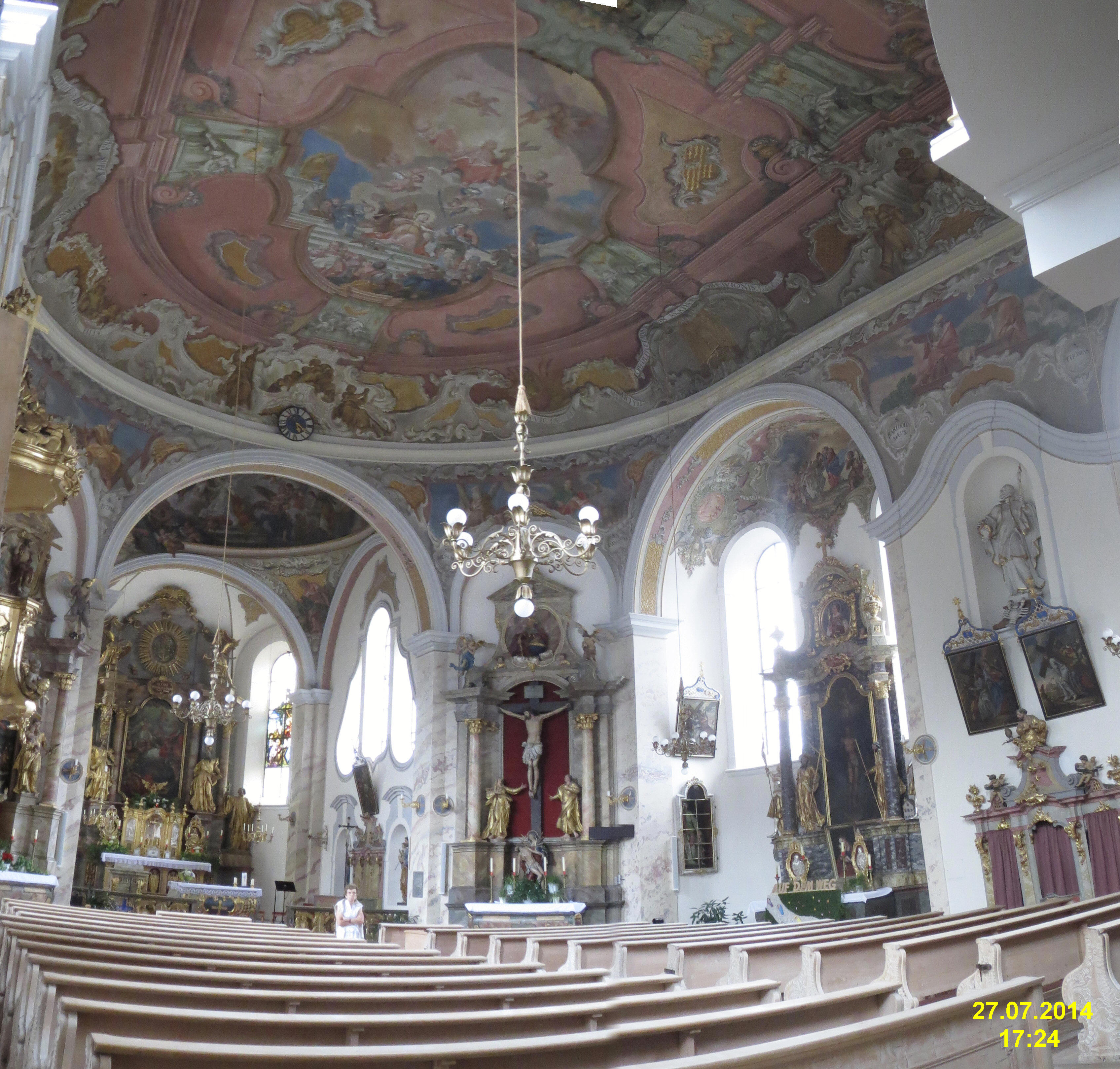 St Katherine's, Lermoos (stitched)